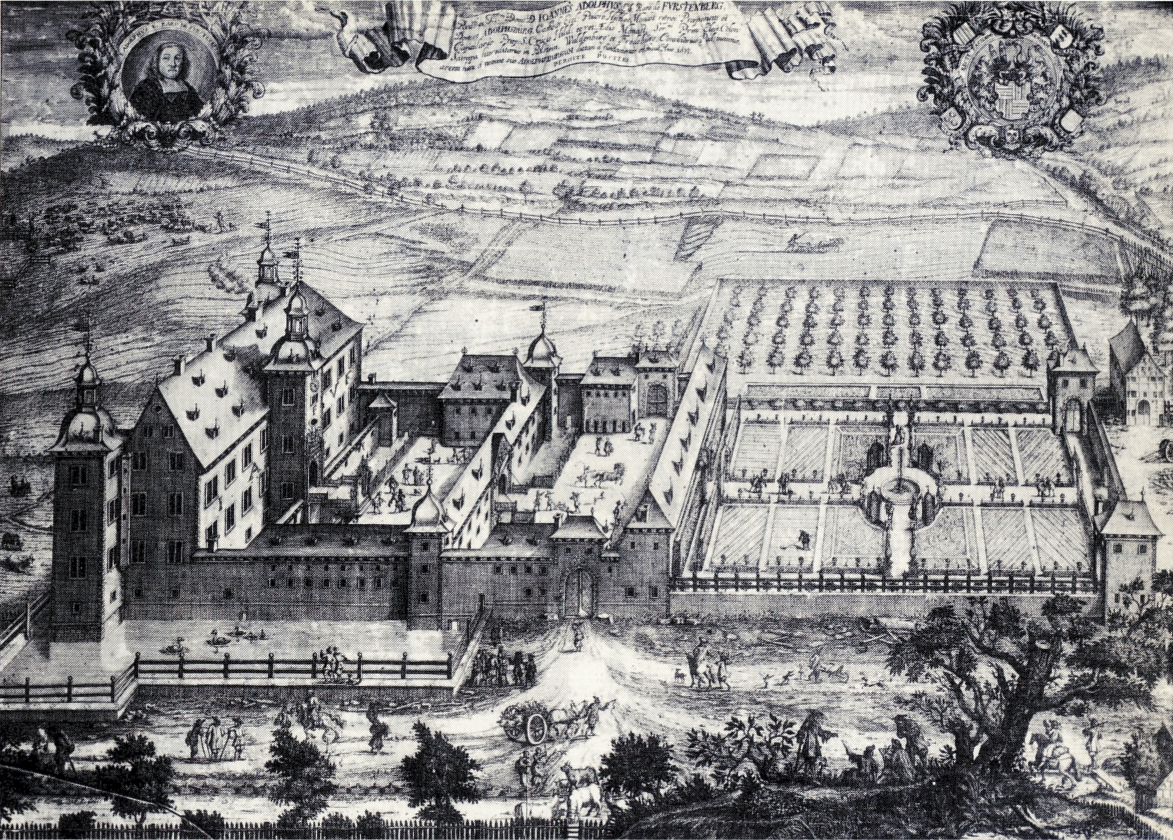 Schloss Adolfsburg in Kirchhundem, Germany, northern aspect, old engraving